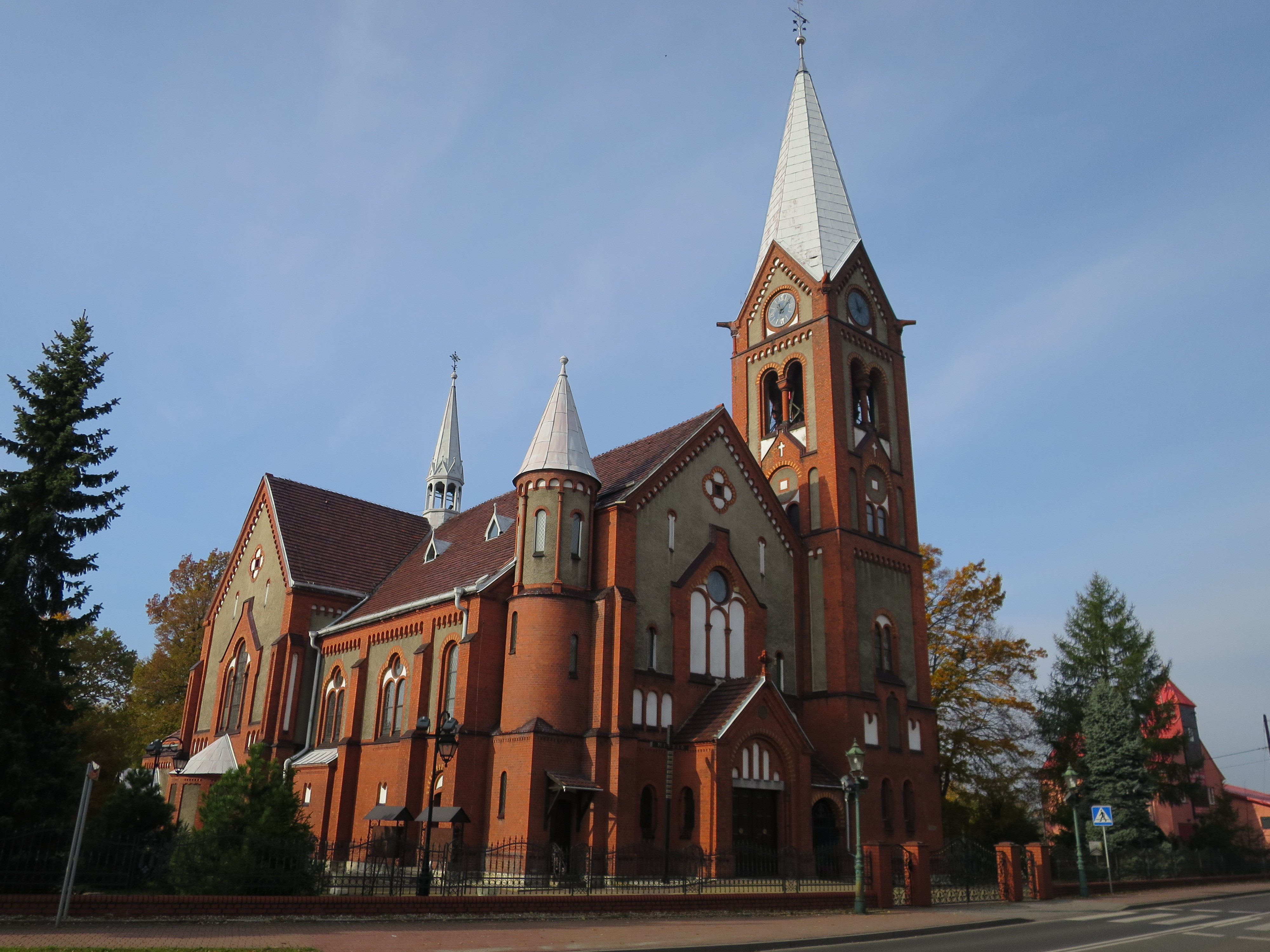 This photo was taken during Wikiexpedition 2016 set up by Wikimedia Polska Association. You can see all photographs in categories Wikiekspedycja Opolska 2016 (Polish part) and Mediagrant III:Wikiexpedice Slezsko (Czech part).